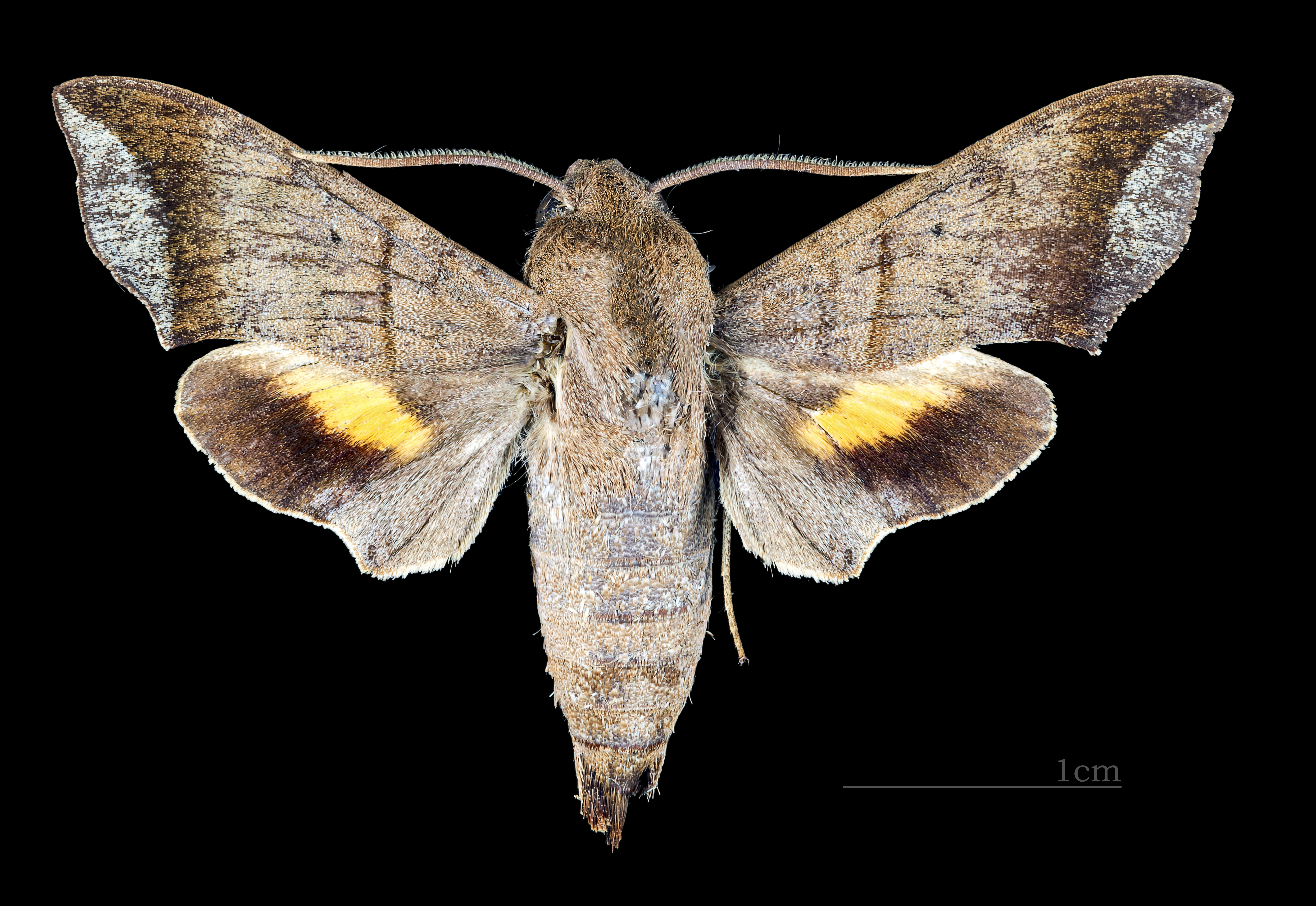 Perigonia lefebvraei - Dorsal side Collection of the Mathematician Laurent Schwartz